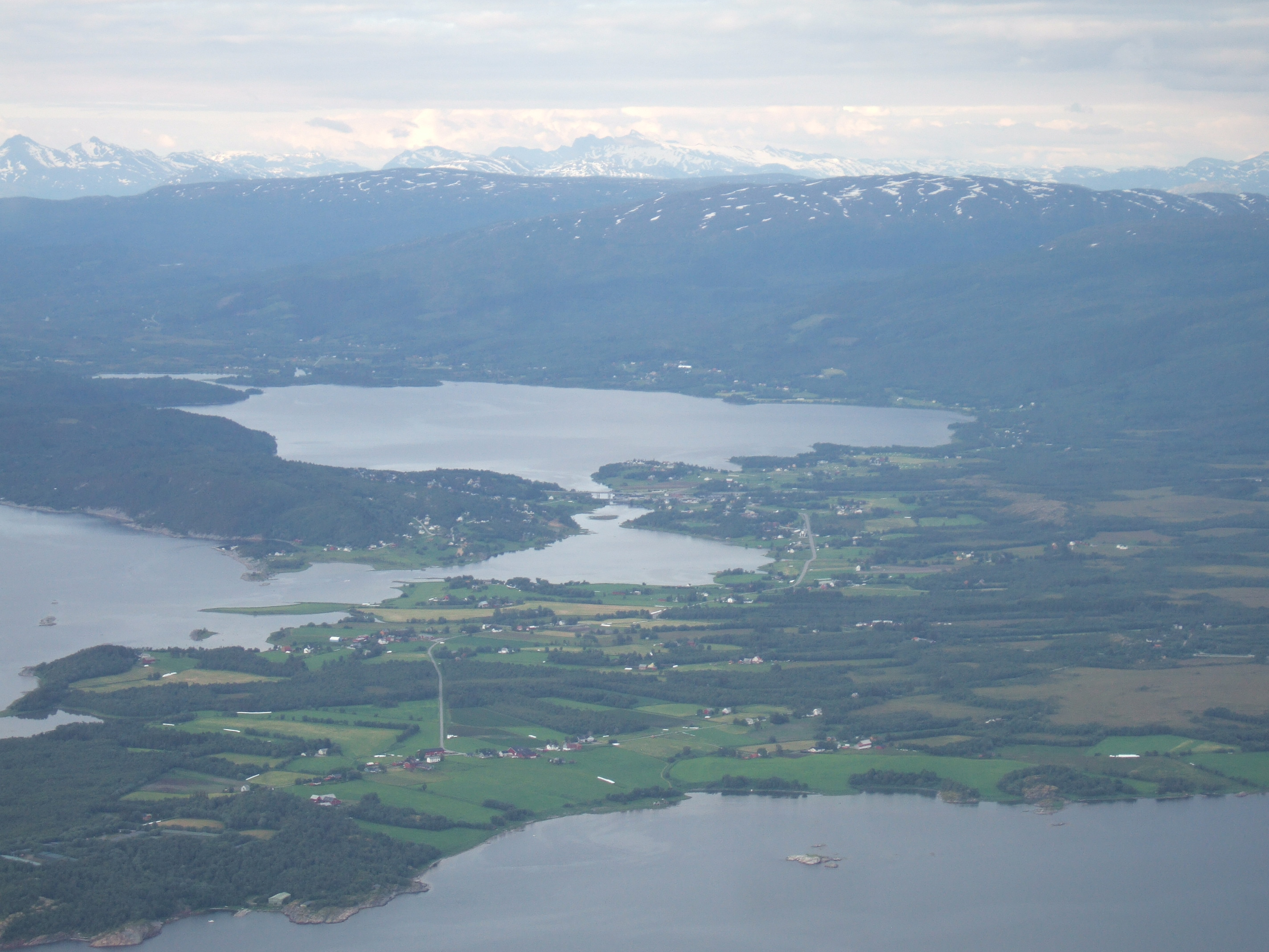 Valnesfjord and the village in Fauske, Nordland. Valnesfjordvatnet lake with farms within the village.